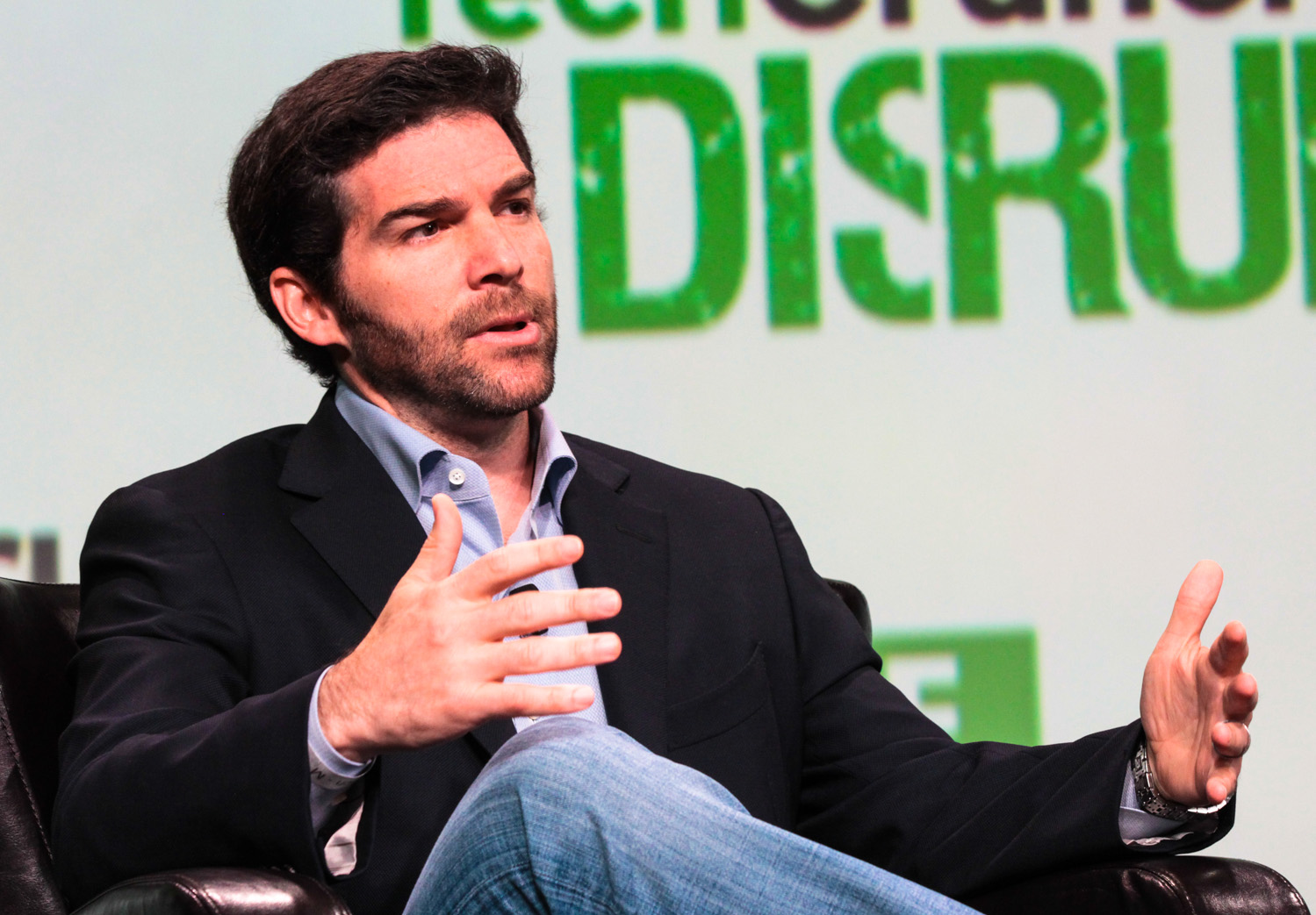 LinkedIn CEO Jeff Weiner at TechCrunch Disrupt San Francisco 2013